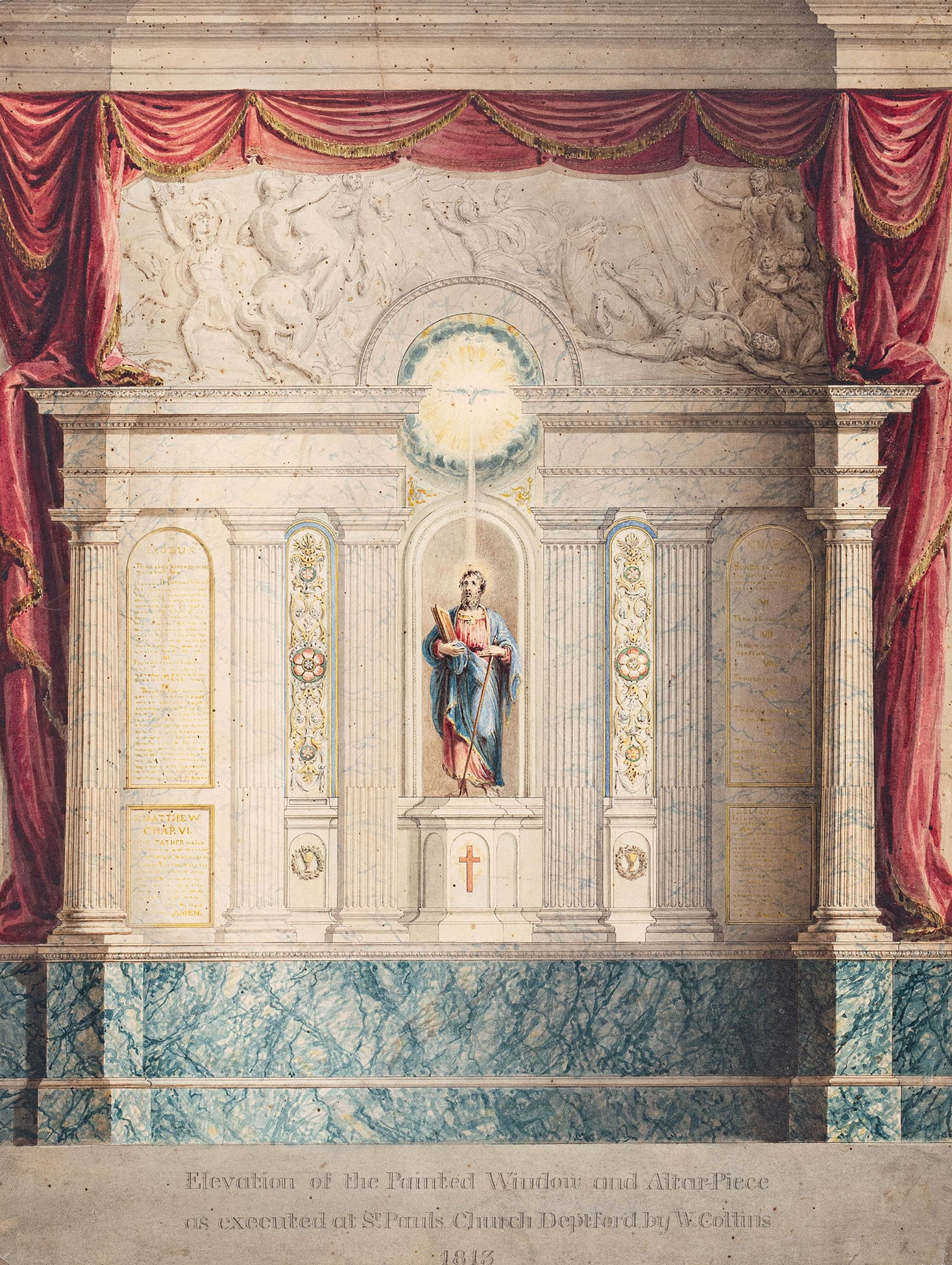 Offered for sale by Abbott and Holder in January 2020 when it was described as "DEPTFORD, St Paul’s Church. (subject). ‘Elevation of the Painted Window and Altar Piece / as executed at St Paul’s Church Deptford by W(illiam) Collins, 1813’. A proposed improvement to Thomas Archer’s 1730 Church. Ink and watercolour. Inscribed and dated. 19x14.25 inches."